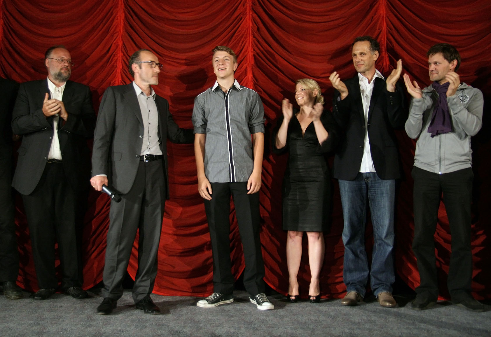 Karl Markovics, leading actress Karin Lischka, leading actor Thomas Schubert and members od the production team at the Austrian premiere of Breathing at the Gartenbaukino in Vienna.